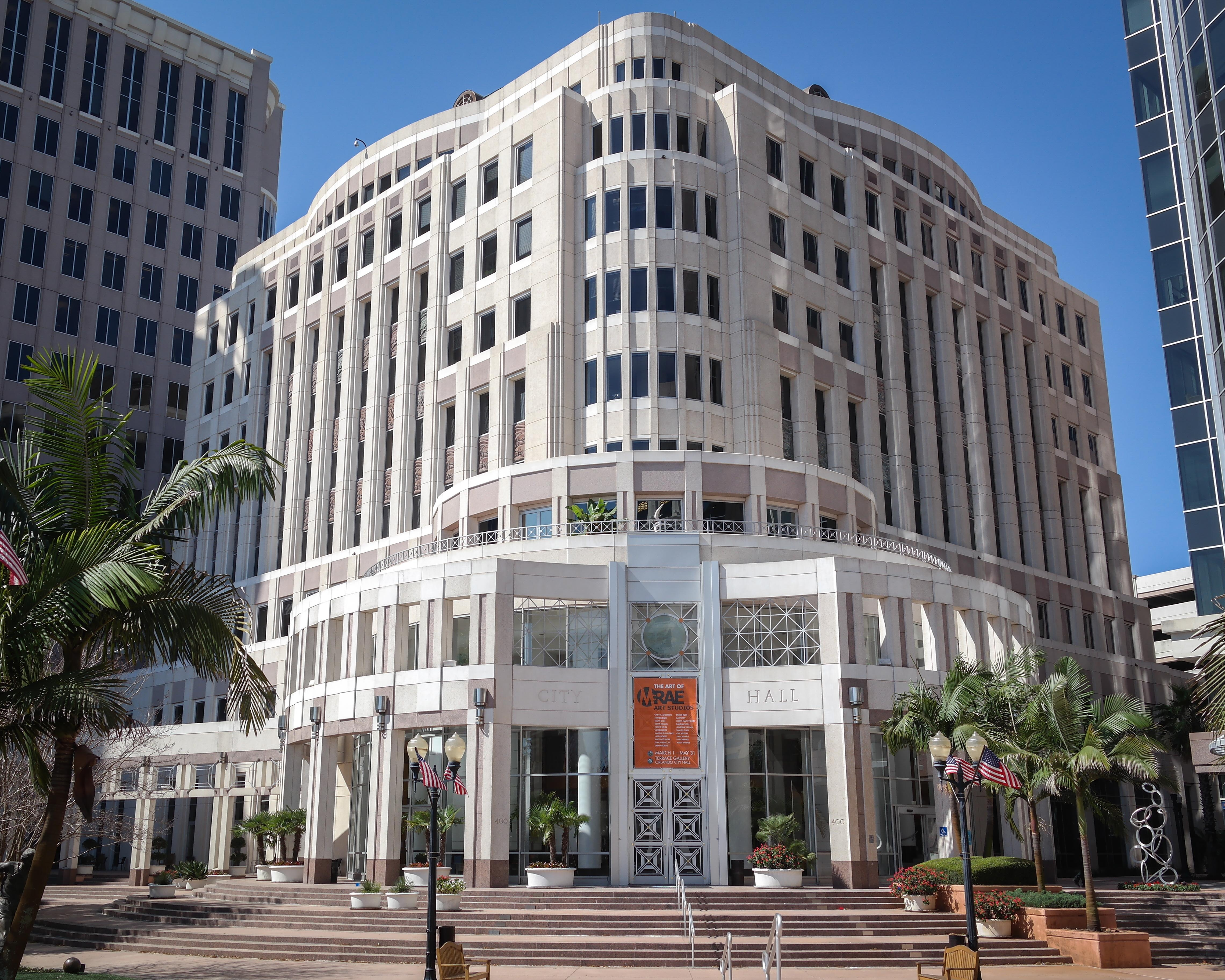 A view of Orlando City Hall